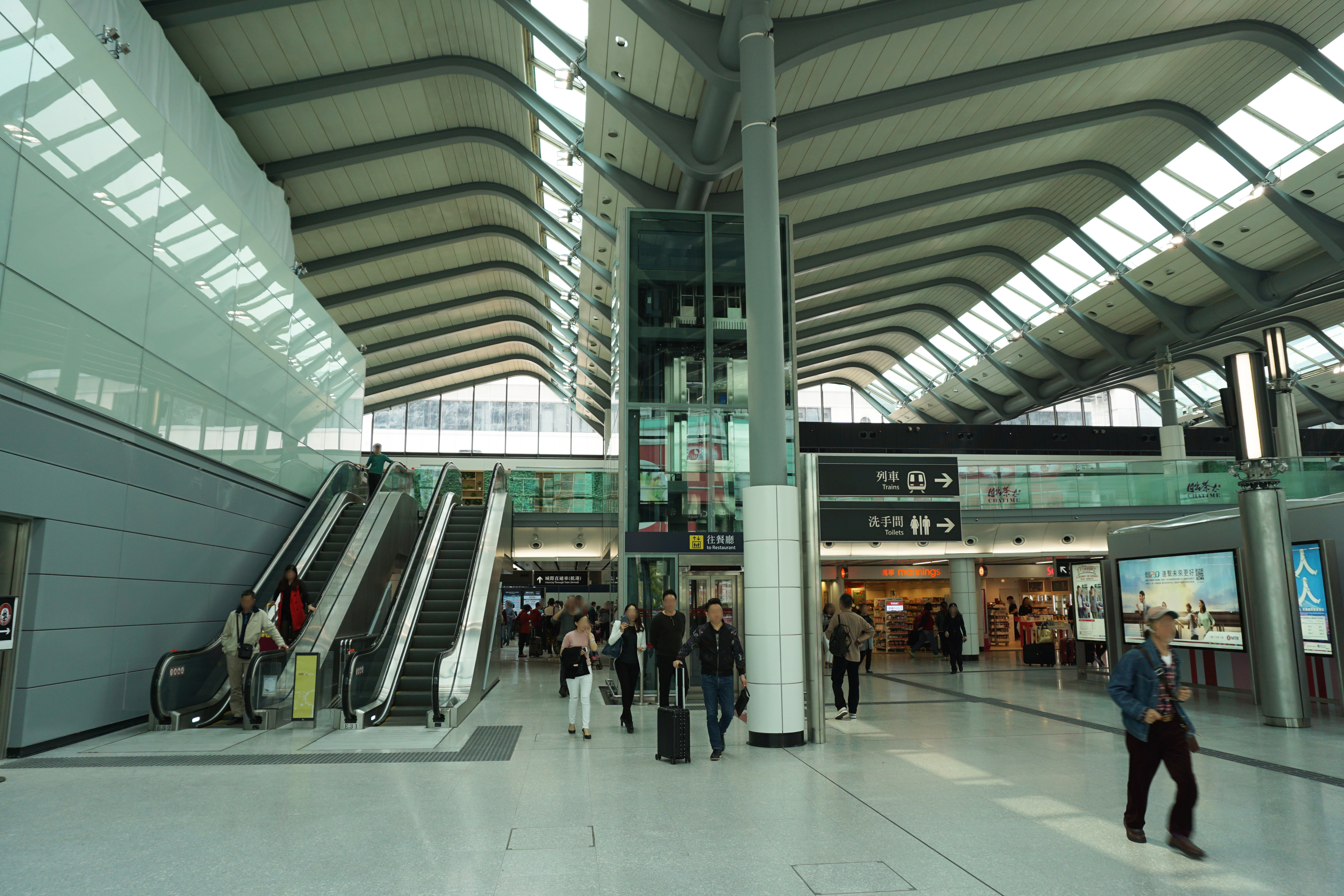 Hung Hom Station in Hung Hom, Hong Kong.